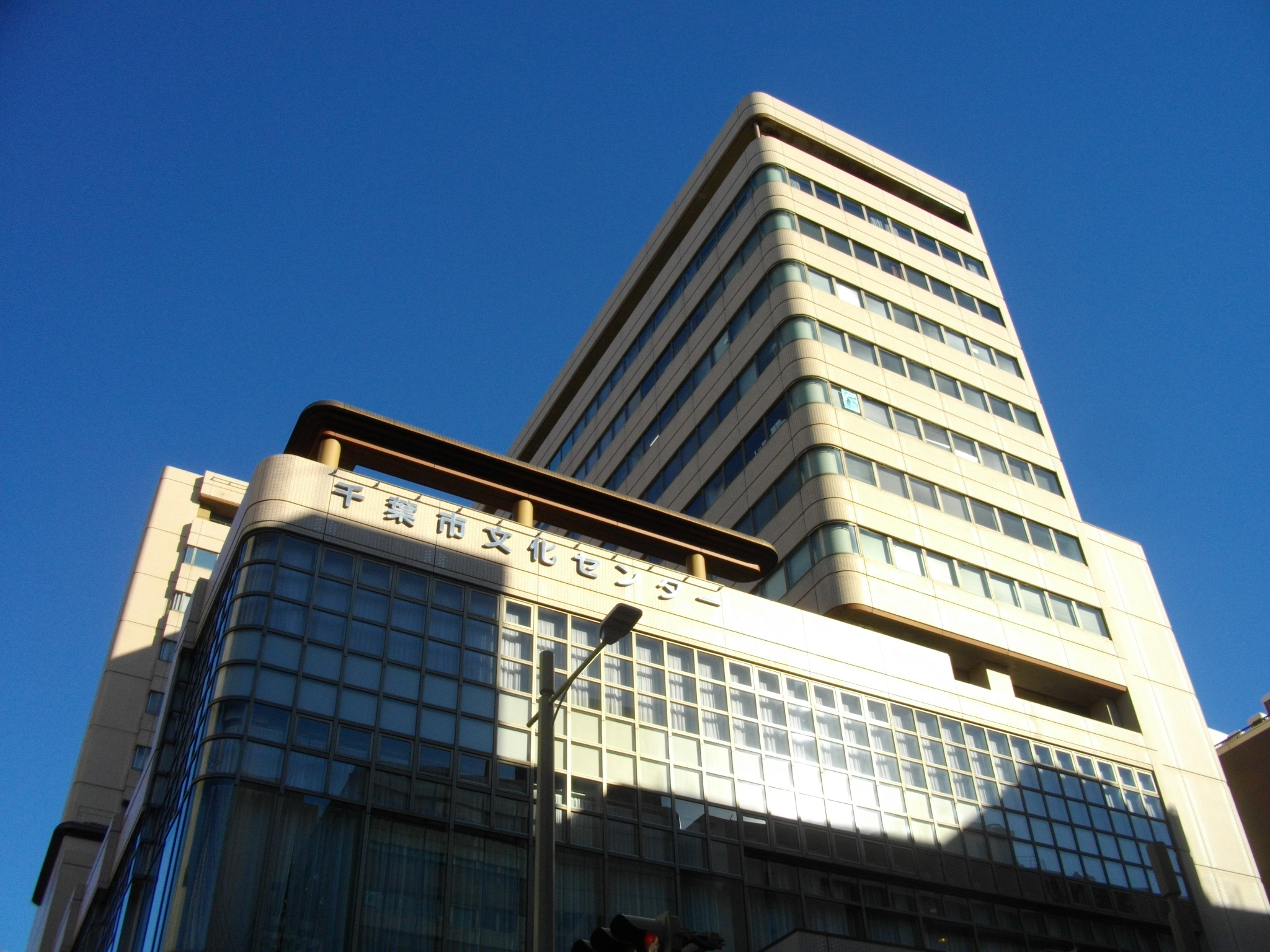 Chiba City Culture Center